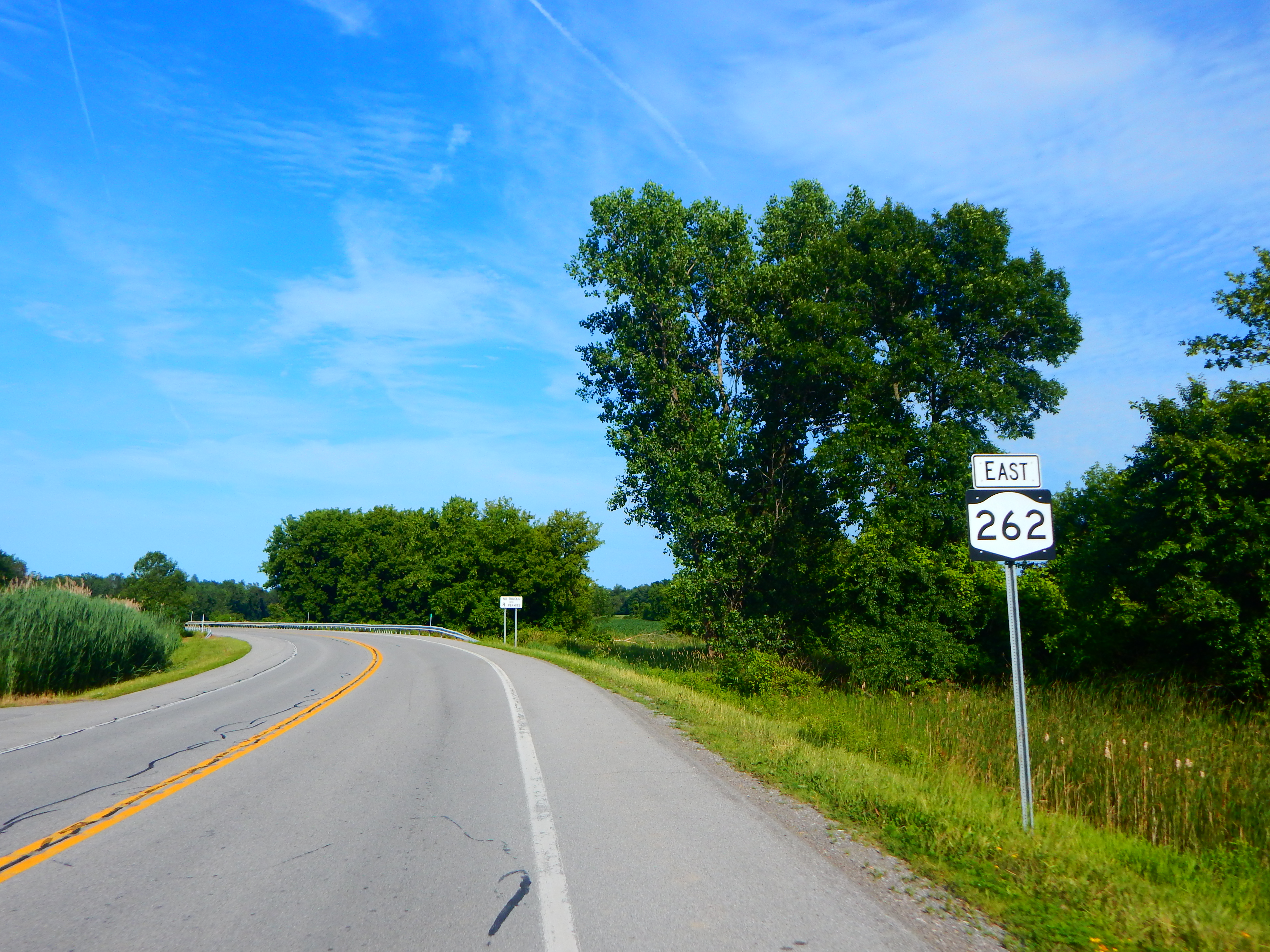 NY 262 running east of NY 98 in Elba, New York.